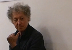 Pierre Birnbaum at Salon de la Biographie 2016, Chaville (France)